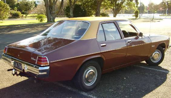 1974-1976 Holden HJ Belmont.